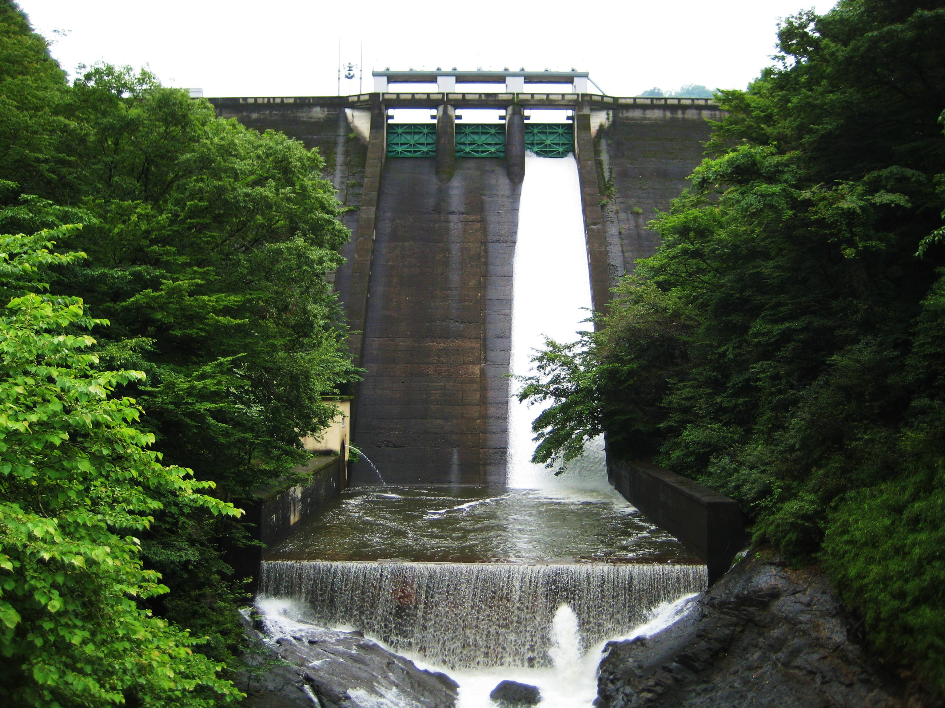 Nakagi Dam.